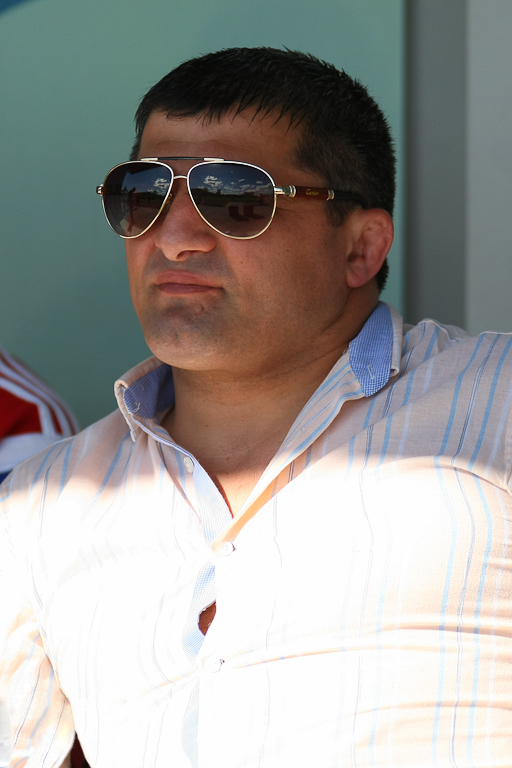 Armen Nazarian - two-time Olympic and three-time World Champion Wrestling.